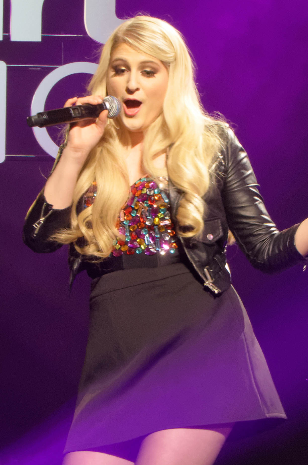 Q102 Philly Jingle Ball 2014